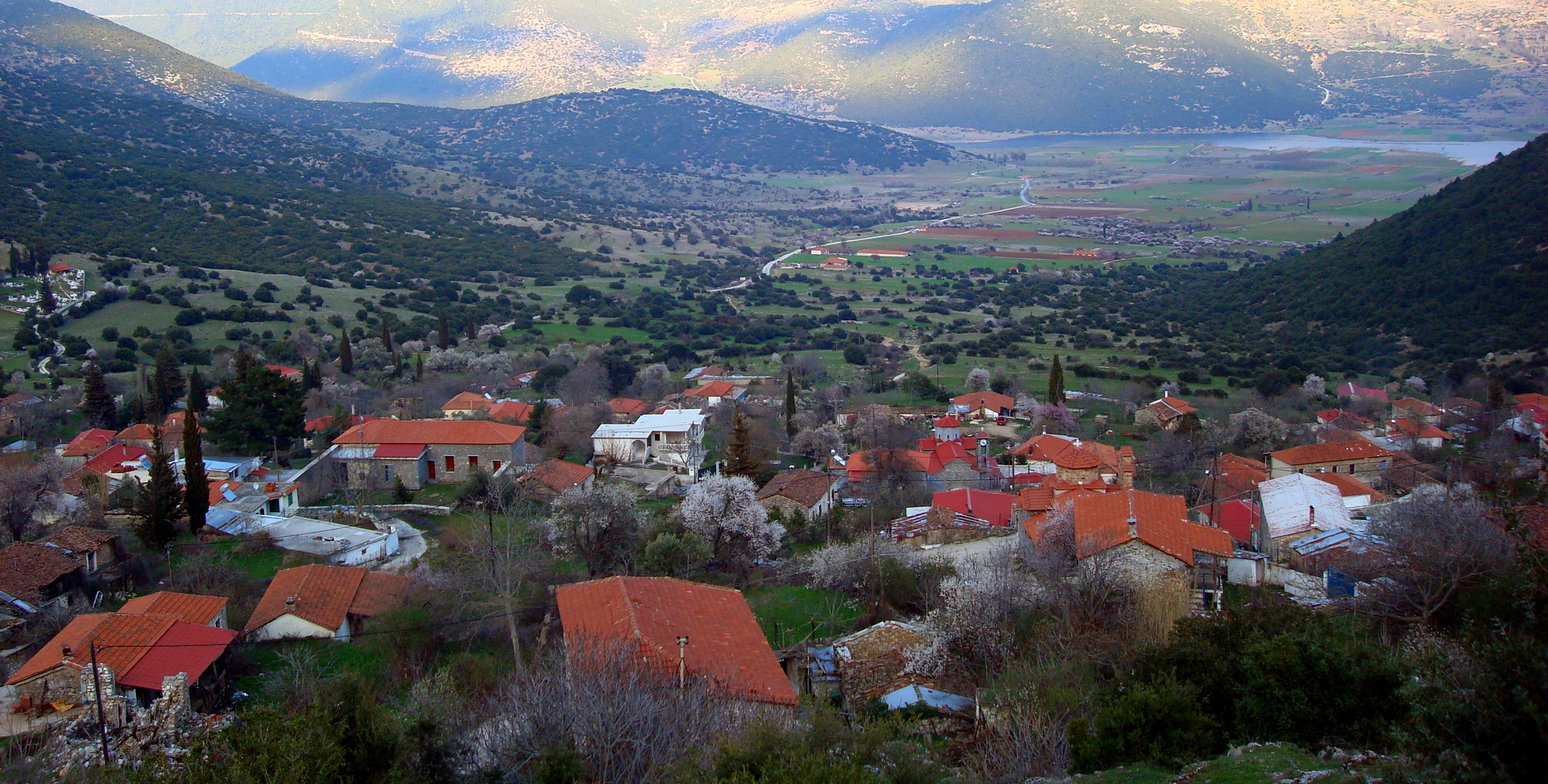 Panorama of village and flooded southern part of the vallylike plateau Skotini-Alea (14 km), Peloponnese, Greece.